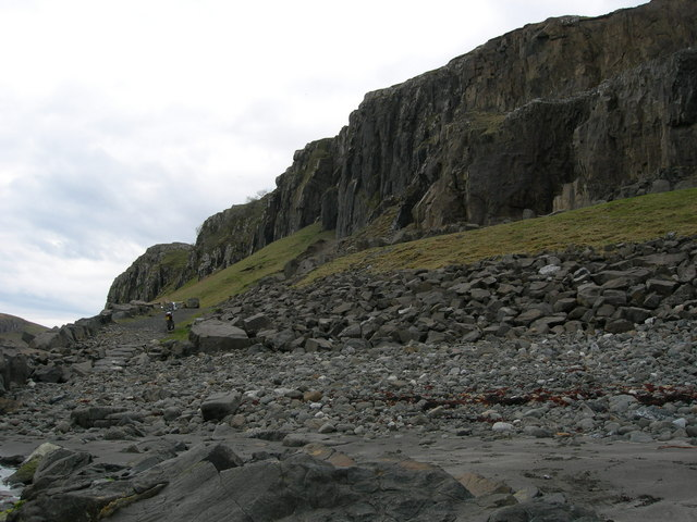 An Corran, a cliff in Staffin Bay. Few meters to the right there was one of the oldest archaelogical sites of Scotland (6500 BC), from the Mesolithic.